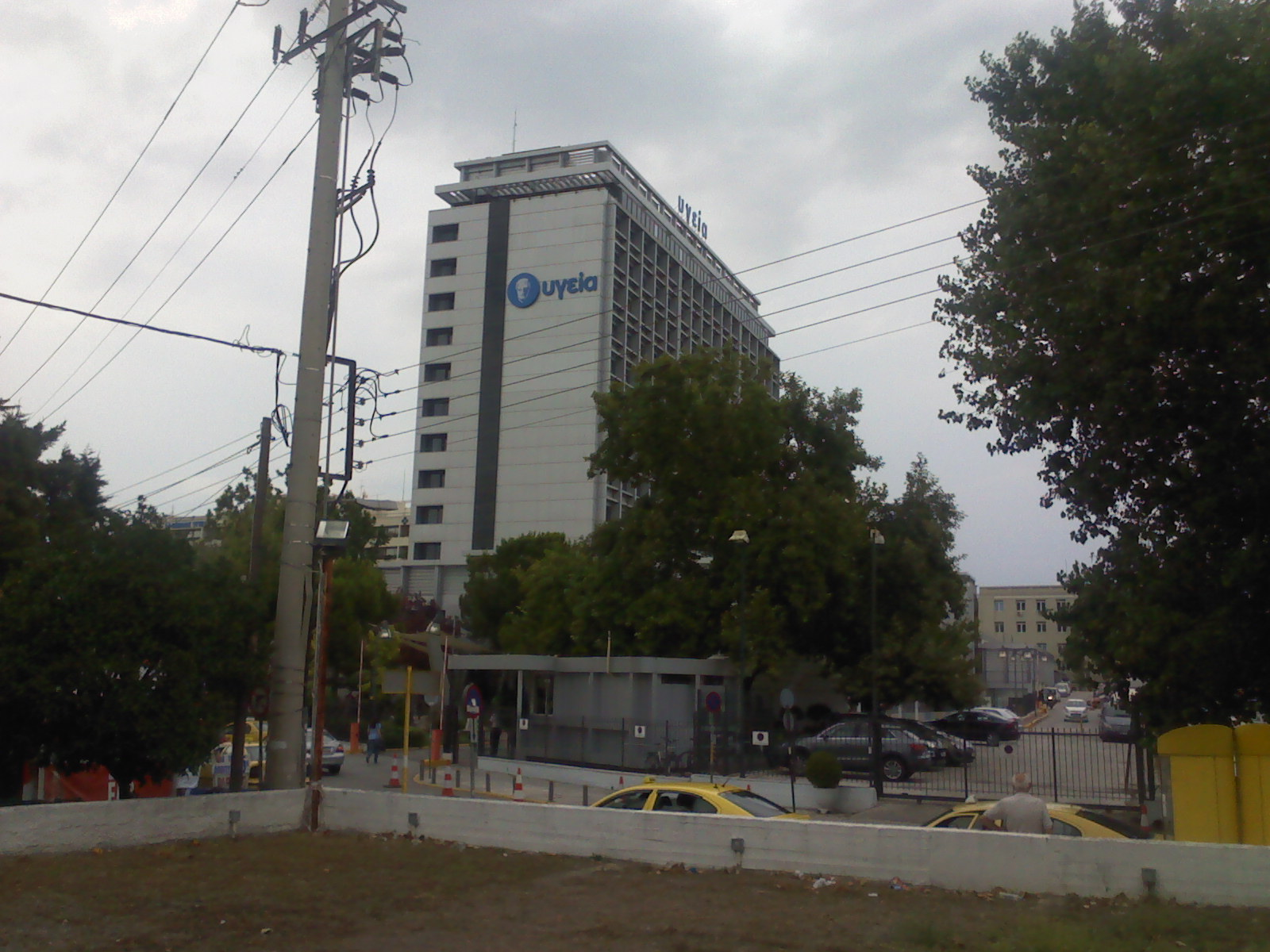 Hospital Igeia Agia Filothei